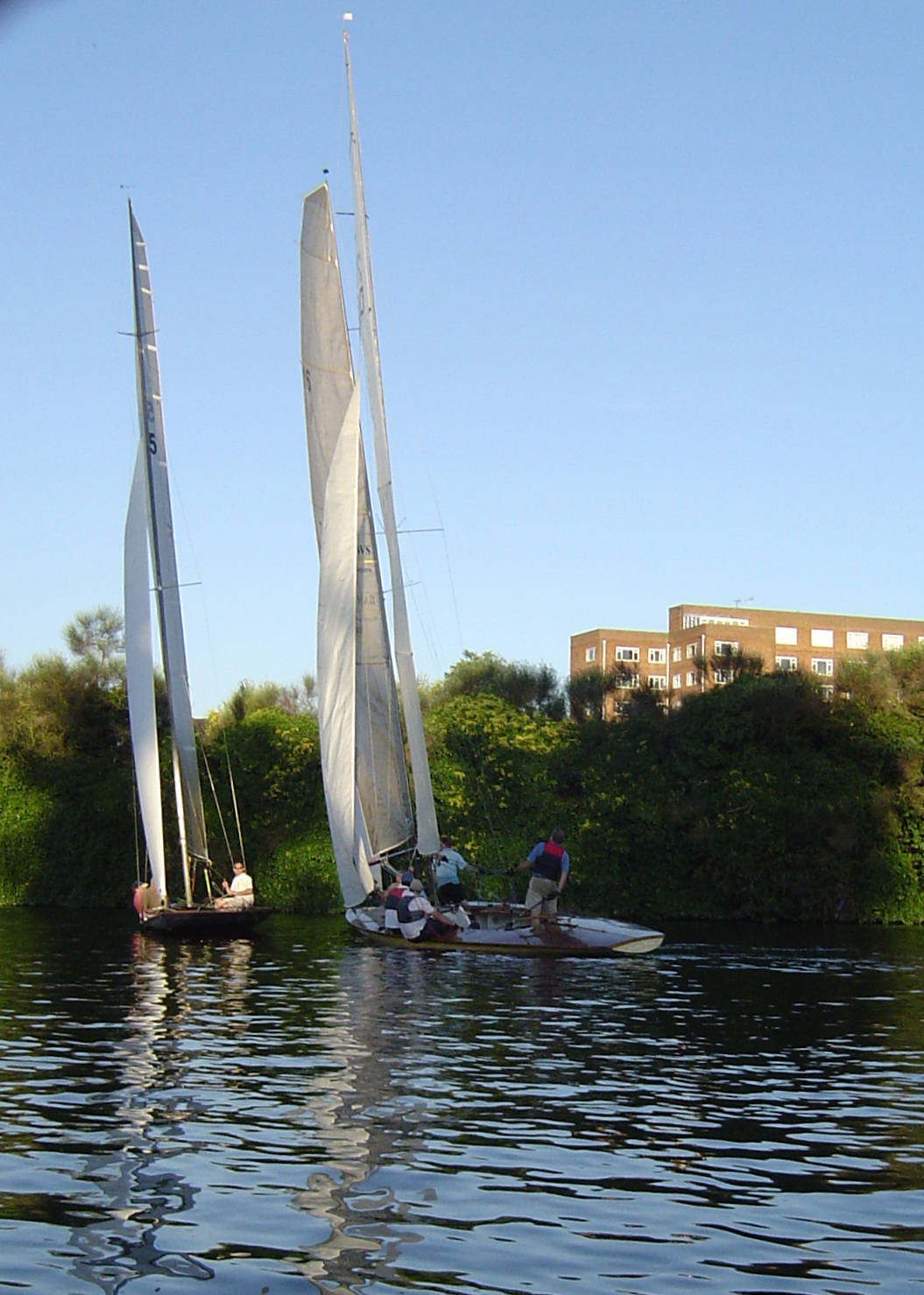 Thames Raters near Ravens Ait on the River Thames